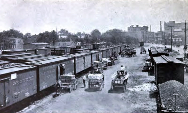 Icing platform, Norfolk, Virginia, turn of 19th/20th century